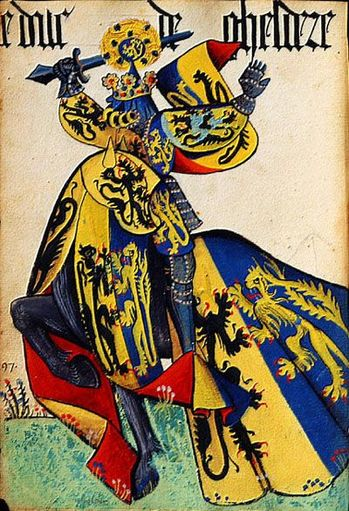 Reinoud IV hertog van Gelre en Gulik, Le Grand Armorial de la Toison d'Or, fol. no.42